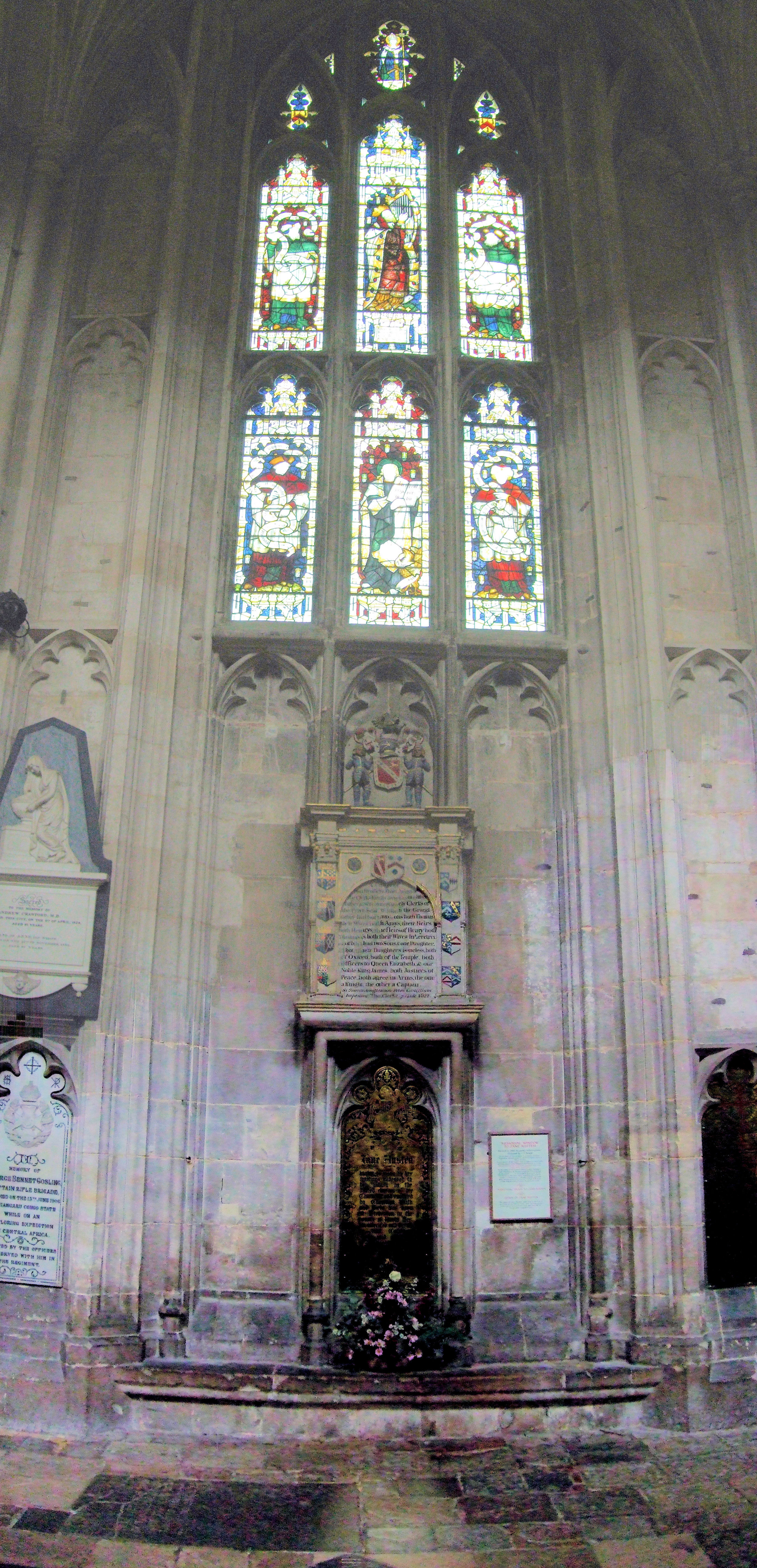 The Jane Austen Memorial Window in Winchester Cathedral. A memorial window, unveiled in 1900, which includes a figure of St. Augustine (or Austin) as a rebus of the family name.